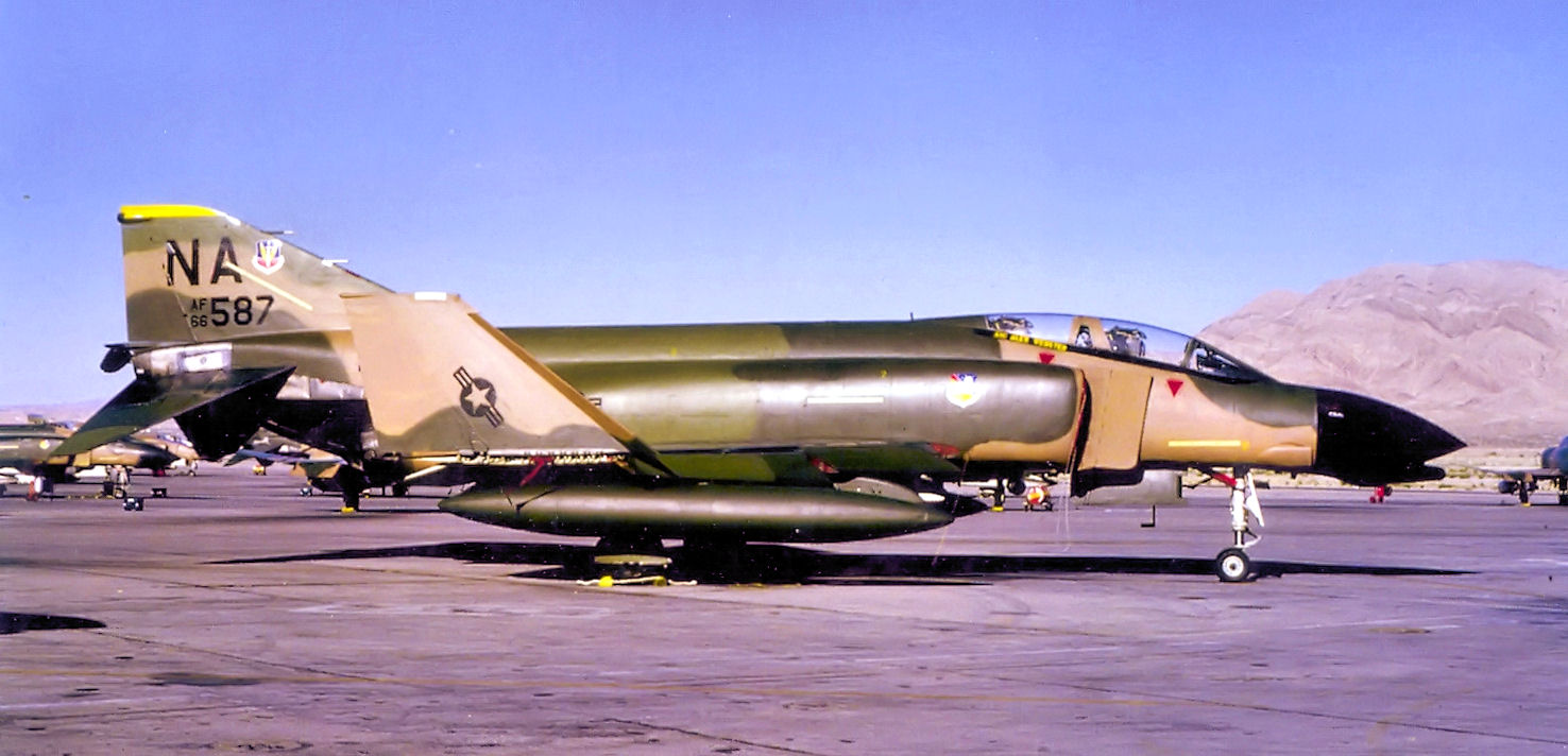 429th Tactical Fighter Squadron - McDonnell F-4D-30-MC Phantom - 66-7587, about 1979 at Nellis AFB, Nevada